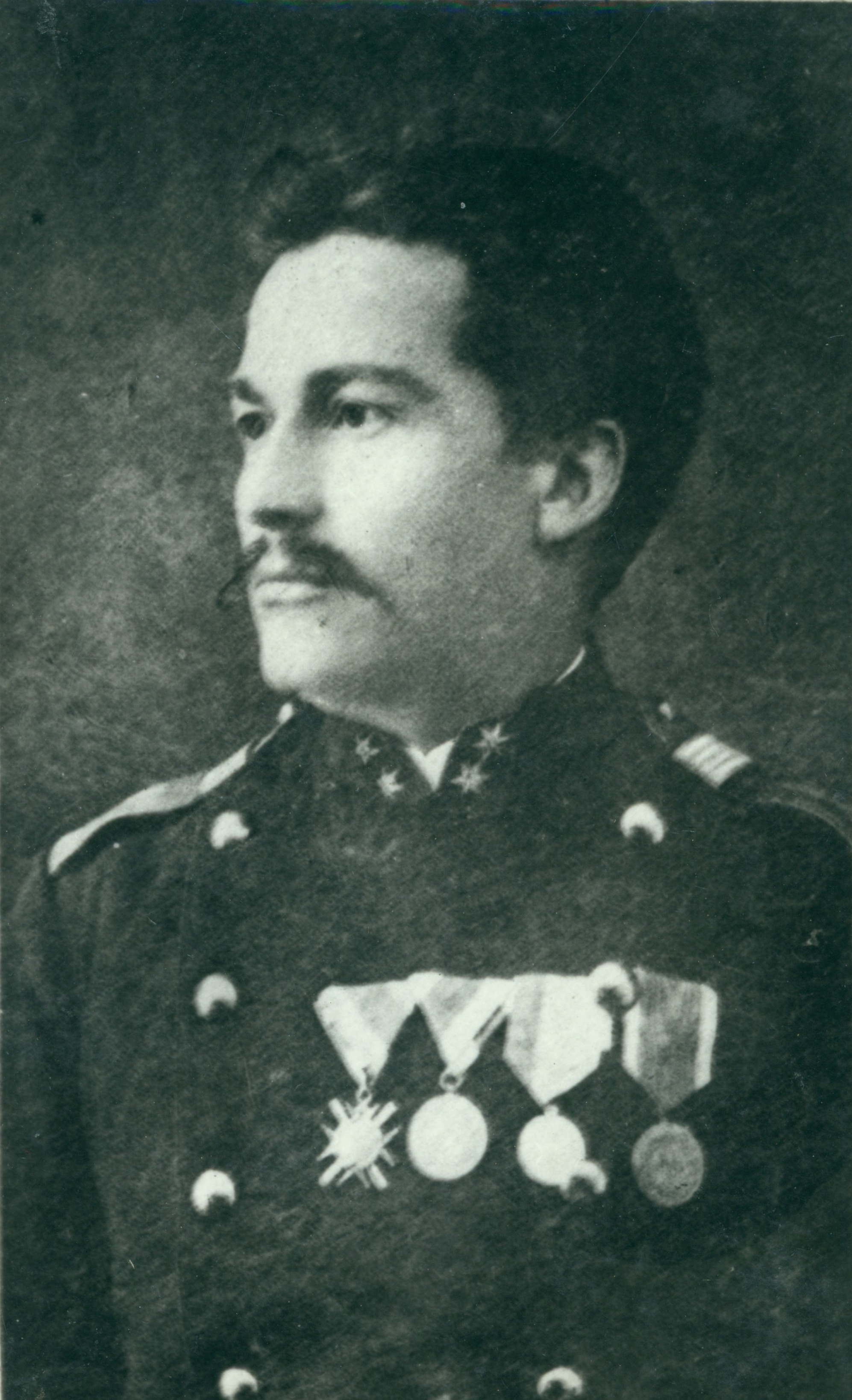 Simo Sokolov